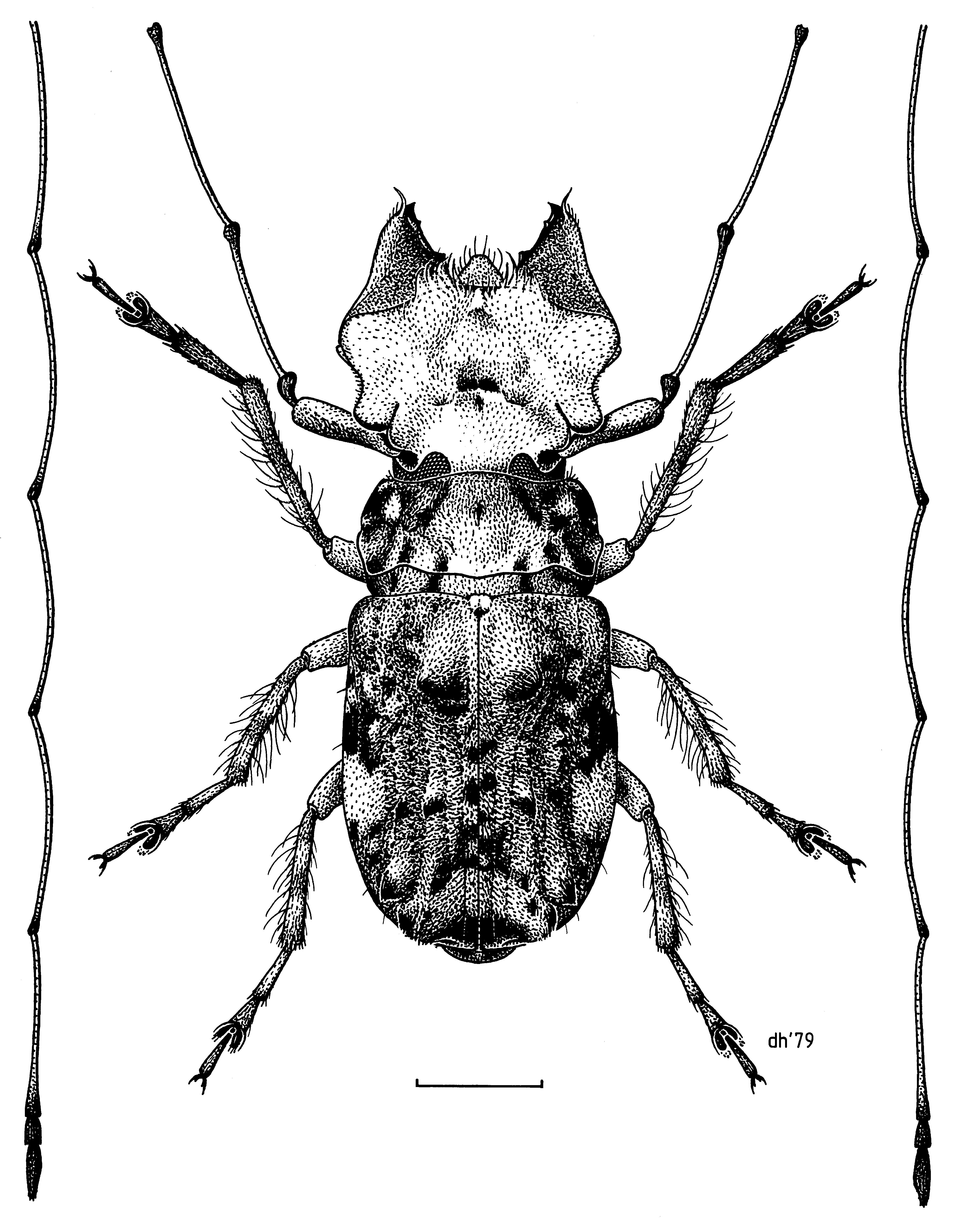 (Coleoptera: Anthribidae) Hoherius meinertzhageni, male illustrated by Des Helmore.